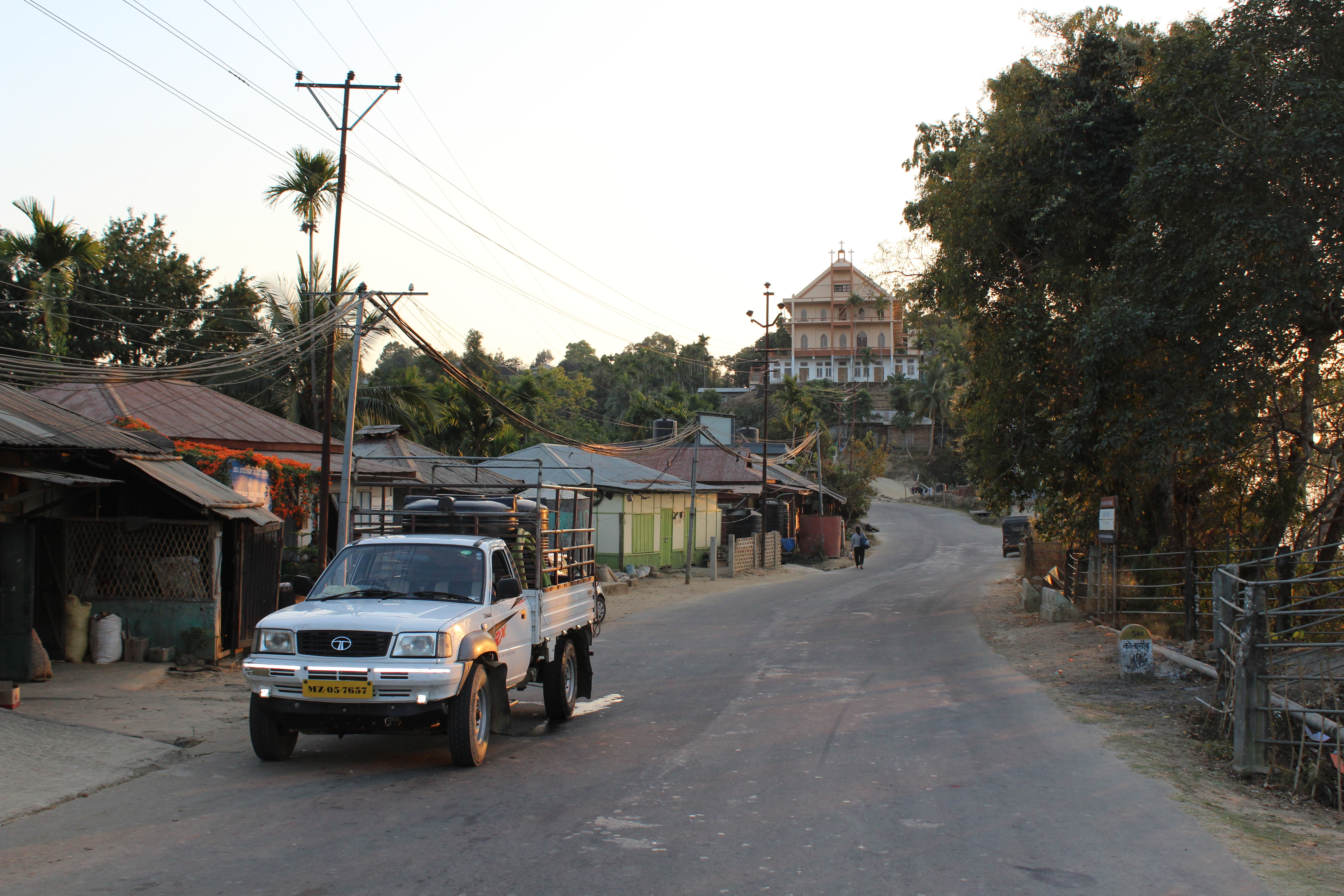 Town of Bilkhawthlir in Mizoram India